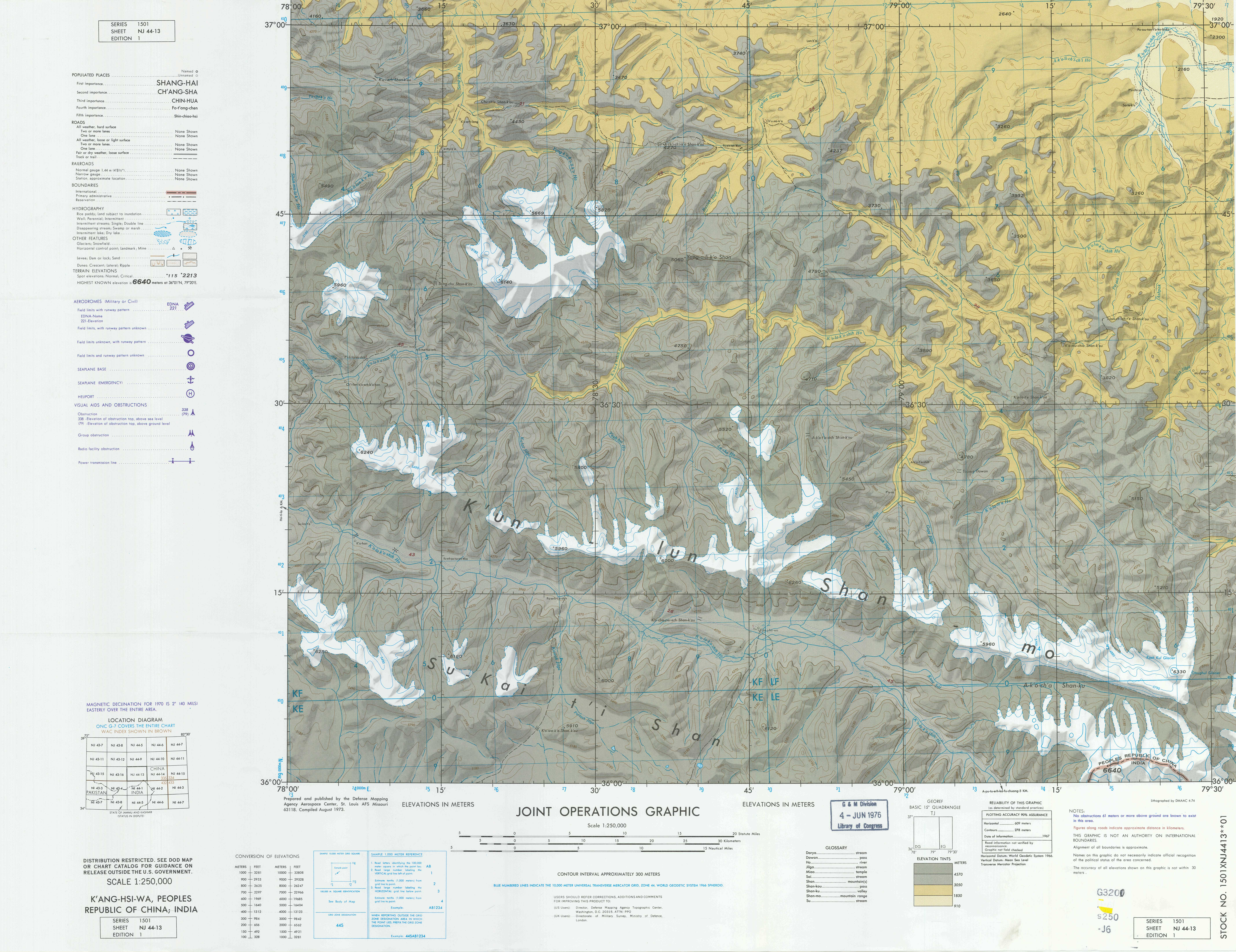 NJ-44-13 Kang-Hsi-Wa China